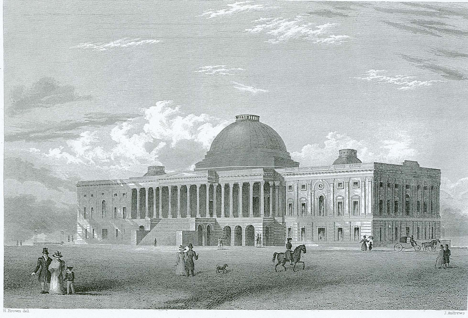 This image was scanned from: John Howard Hinton The History and Topography of the United States of North America, from the earliest period to the present time (1856, vol. II) between pp. 384 and 385 :This engraving appears to have been done in about 1840, but there is no indication from the publisher that there are any editions earlier than this one.